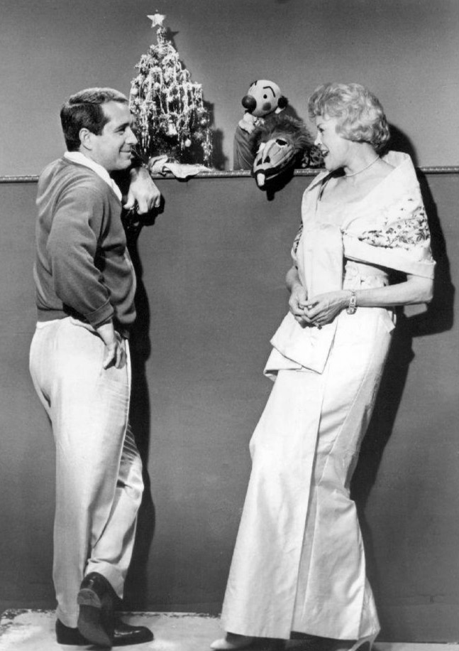 Photo of Perry Como, Kukla and Ollie with Fran Allison from a 1962 appearance on Perry Como's Kraft Music Hall.